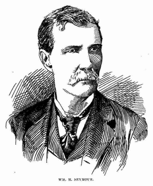 Sketch, by uncredited artist, of Judge William H. Seymour (1840-1913) of New Orleans, appearing in and sourced from: Seymour, William H. The Story of Algiers, now Fifth District of New Orleans, Past and Present. 1. New Orleans: Algiers Democrat Publishing Co., Ltd., 1896. LCCN 48041591